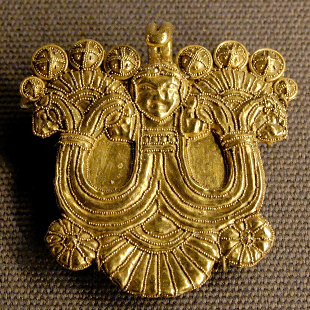 Gold pin with a Mistress of the Animals (potnia theron). Gold with granulation, ca. 630 BC.